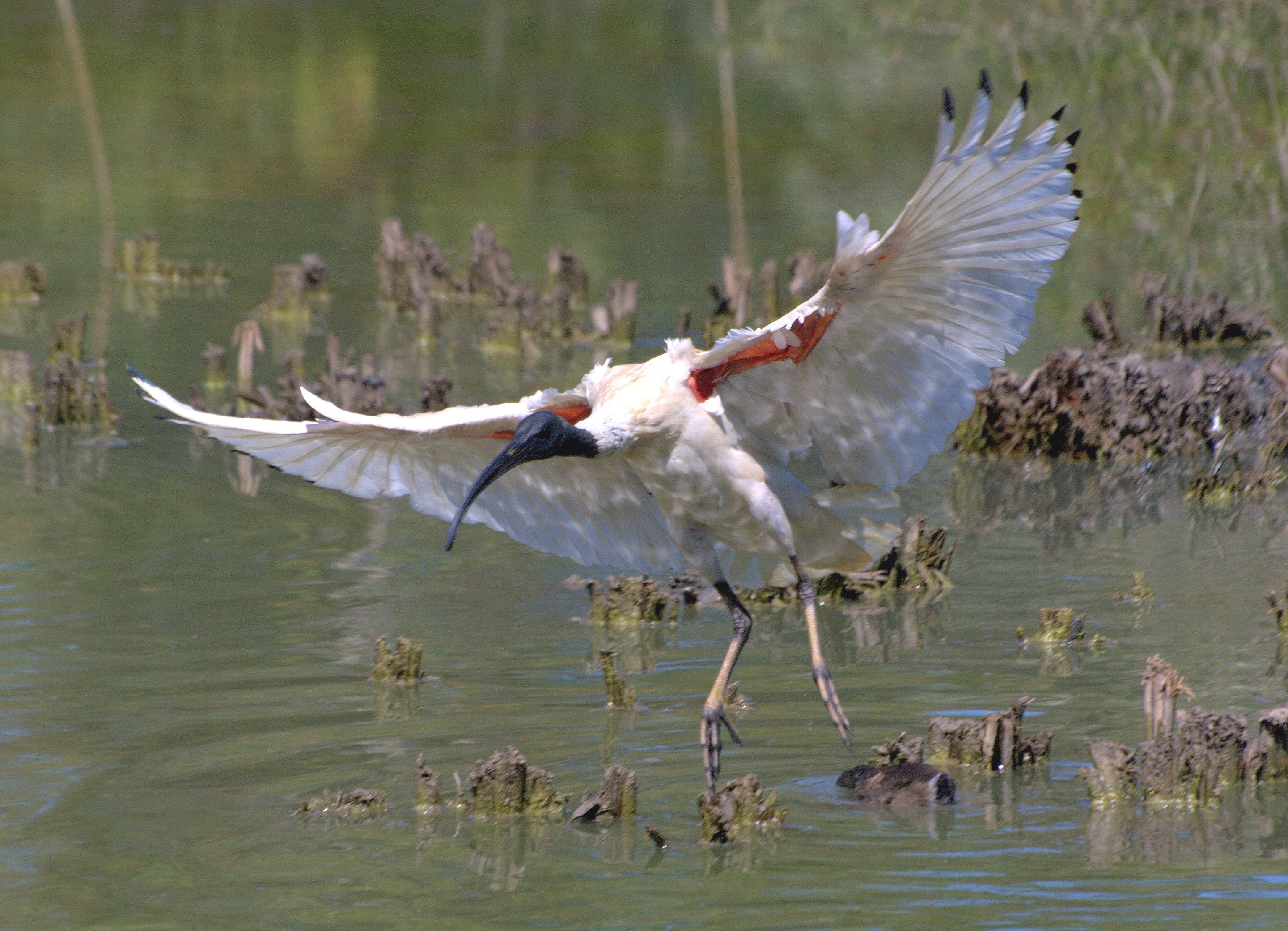 Australian Ibis